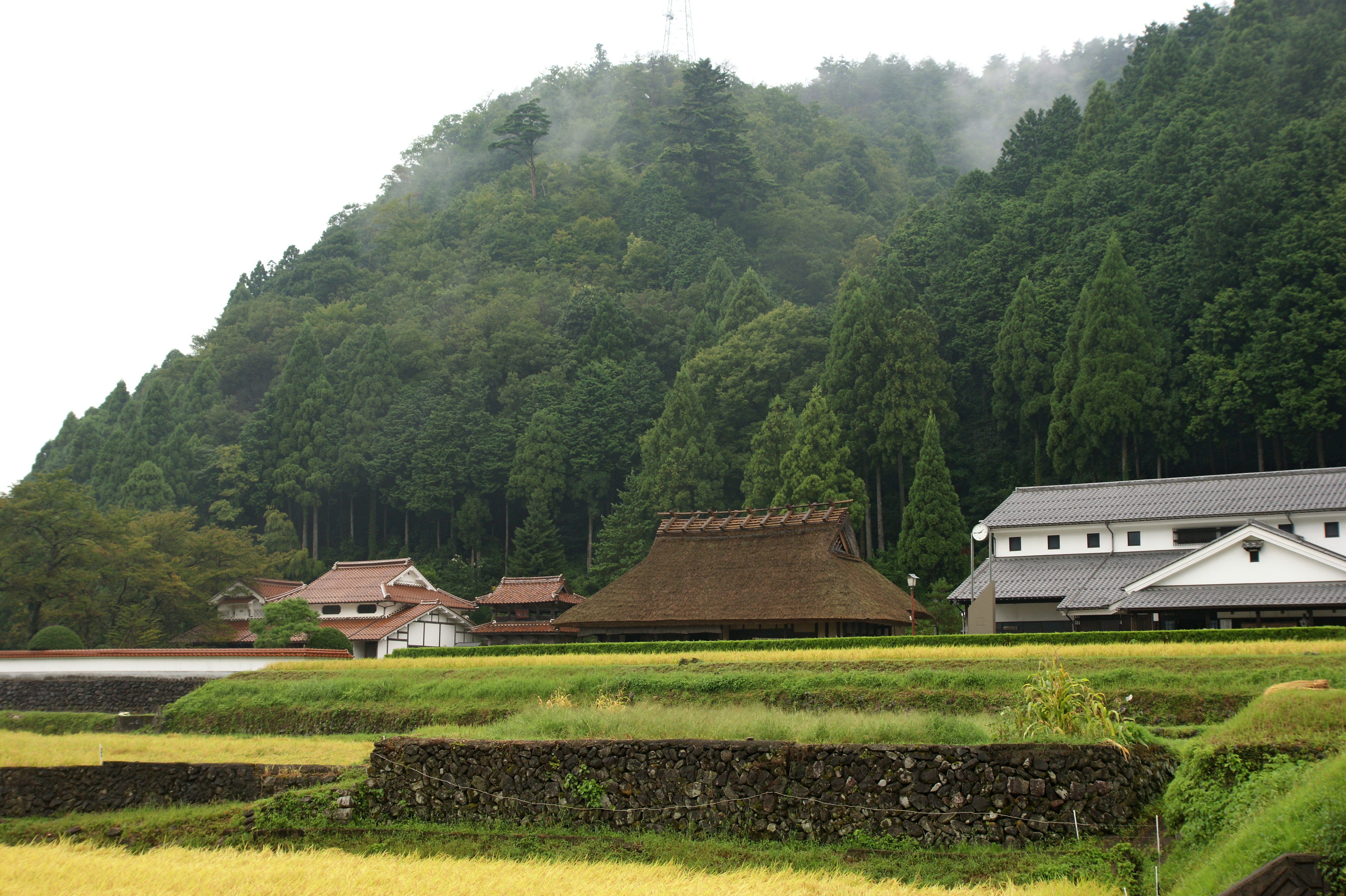 Wakasa kyodobunka-no-sato in Wakasa, Tottori prefecture, Japan